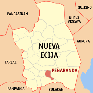 Map of Nueva Ecija showing the location of Peñaranda